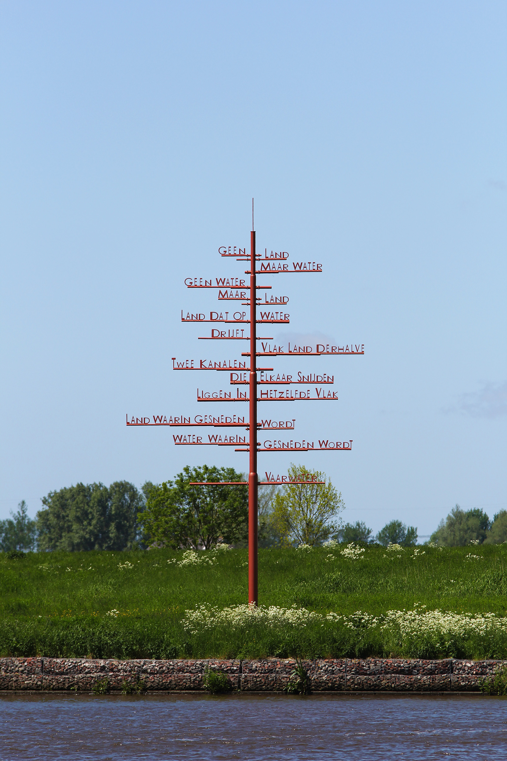 Sculpture "Vaarwater" (Fairway) by Gerrit Krol and Regina Verhagen in the municipality of Zuidhorn, the Netherlands